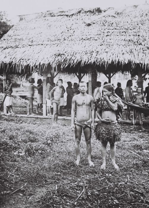 Mentawai man and woman from the village of Sawang Tungku on North-Pagaï